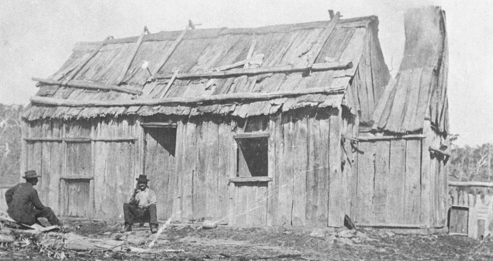 A hut with timber slab walls and a bark roof, Belle Vue Station, Glencoe, NSW